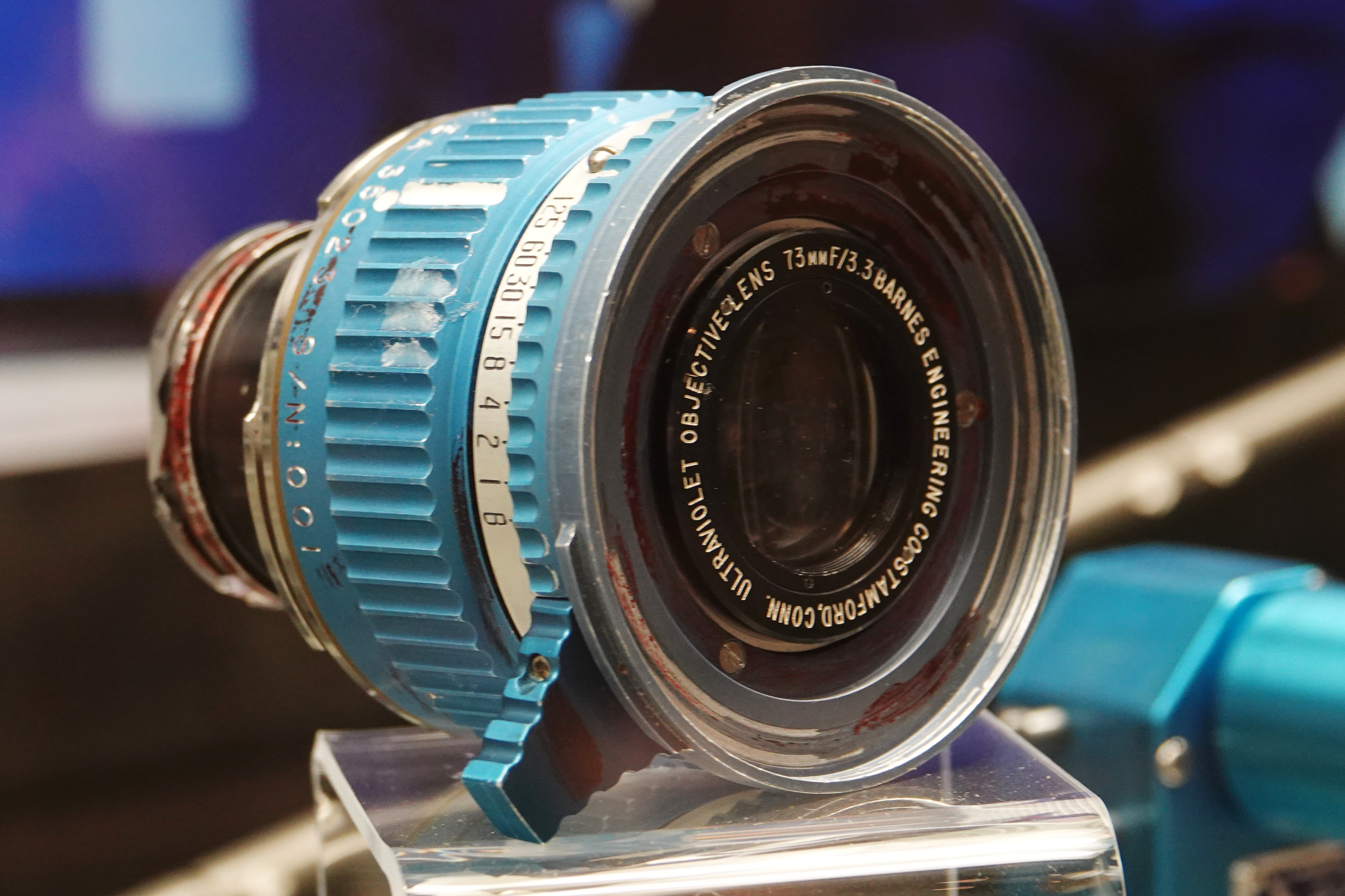 An experiment on Gemini X to obtain spectra of bright stars in the southern Milky Way required this ultraviolet lens. The use of a special lens, prism, grating, and ﬁlm type allowed only ultraviolet light to be recorded. The experiment resulted in only a few usable frames. Picture taken at the National Air and Space Museum's Steven F. Udvar-Hazy Center in Chantilly, Virginia, USA. -- Transferred from NASA